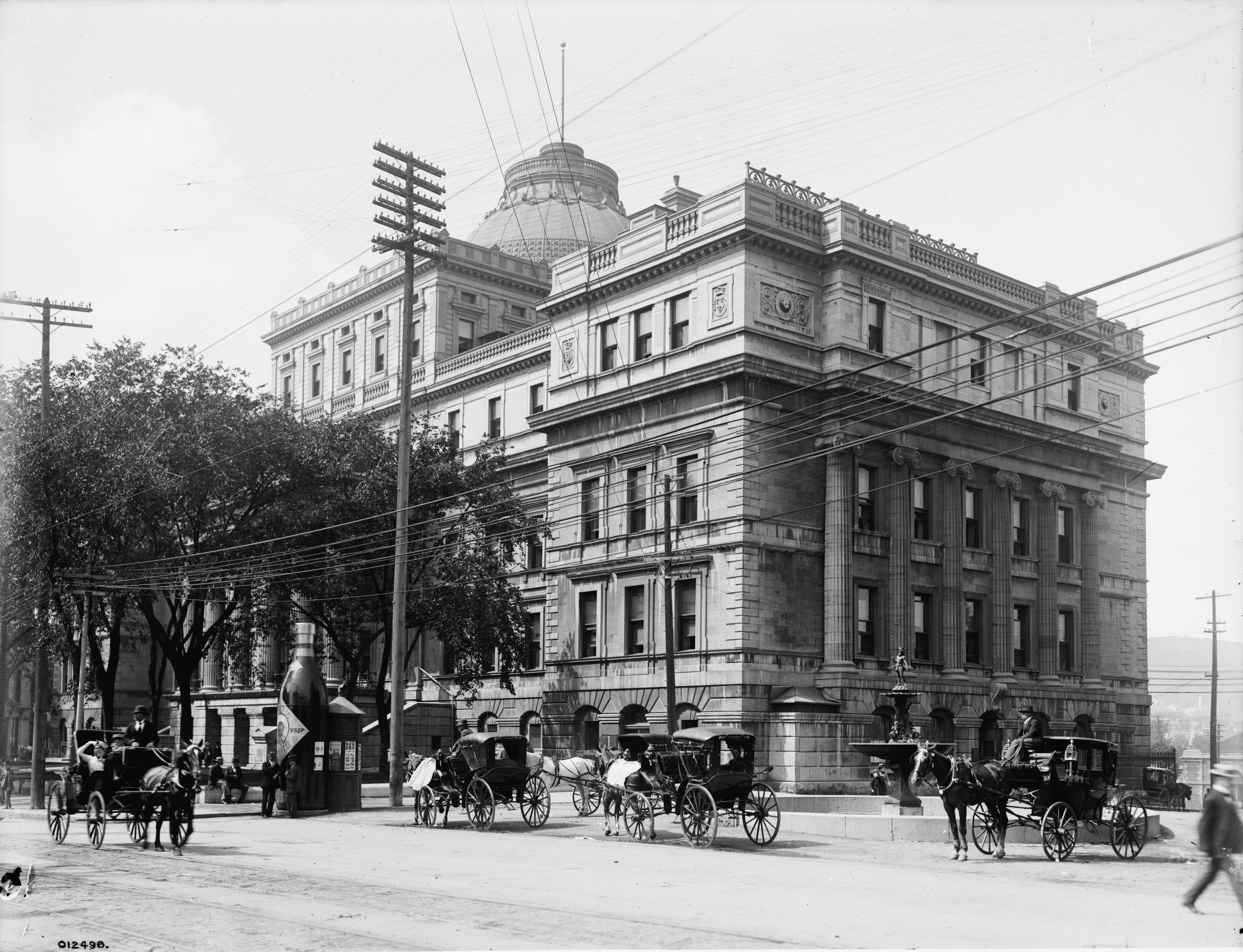 Court house, Montreal